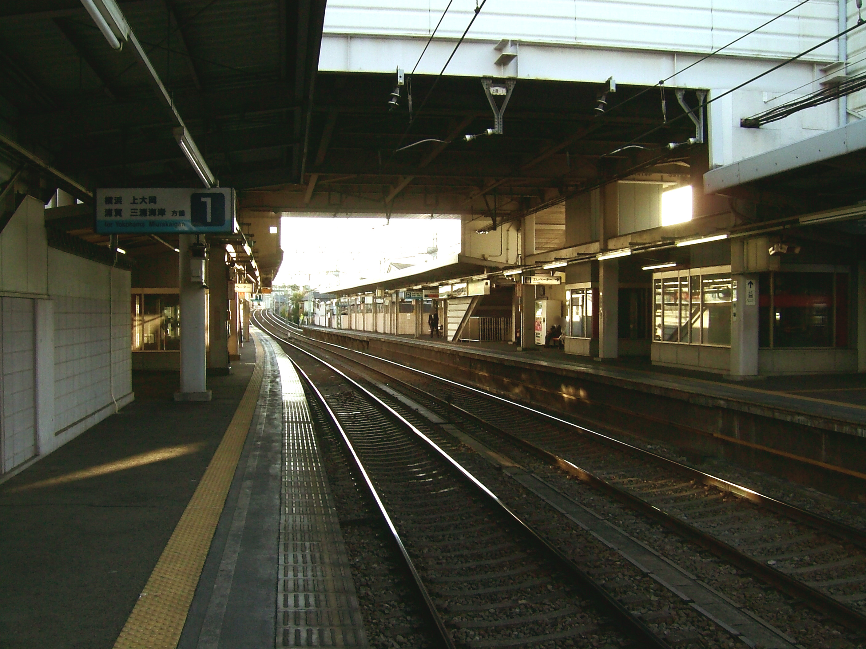 Tsurumi-ichiba Station platform (Keihin Electric Express Railway Main Line)